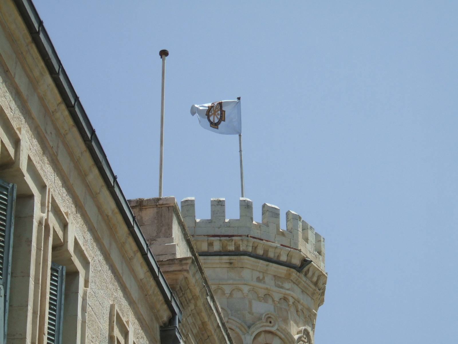 Flag of the Imperial Orthodox Palestine Society over Russian Compound, Jerusalem. The Chi rho or Crismon is a Christian religious symbol formed by the first two greek letters of the name "Christos" (XPIΣTOΣ, Χριστός), i.e. "chi" and "rho".